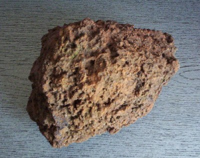 Bog ore (limonite) from forest near Żyrardów (Poland, Masovia).